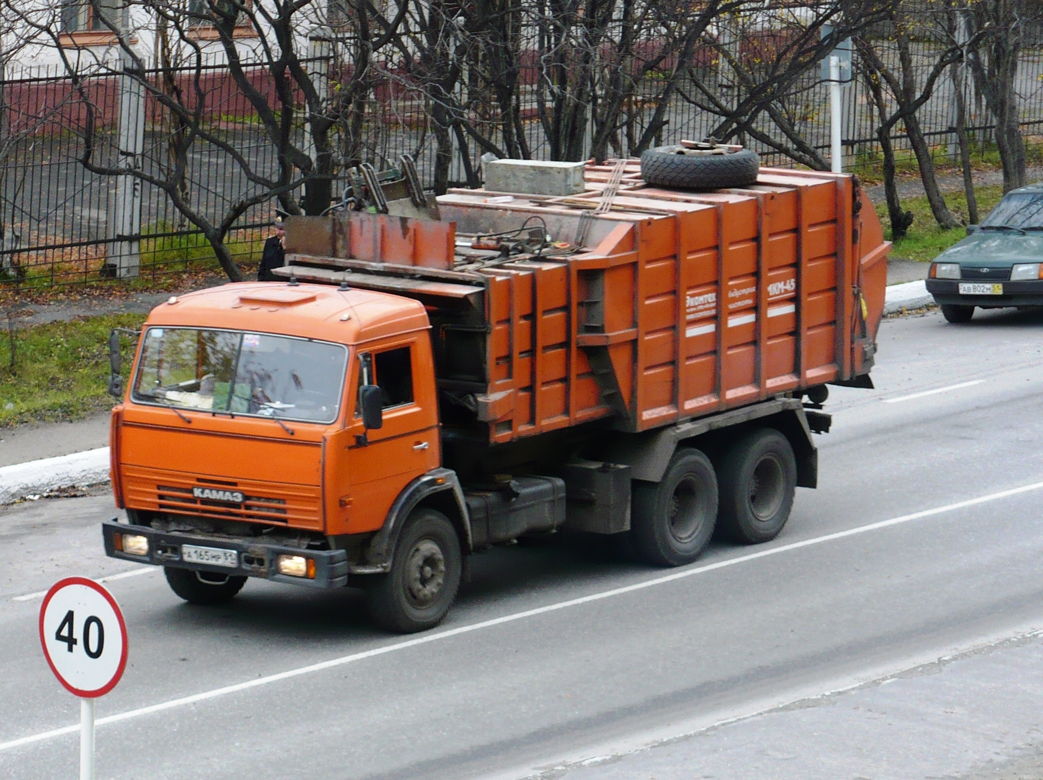 Kamaz-based waste collection truck in Severomorsk. This truck is equpped with a MKM-45 garbage device.